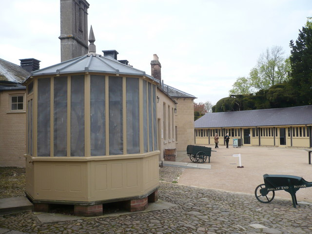 The game larder, Audley End Just outside the dry larder and scullery, this was where the game was hung in the cool part of the Service Yard.